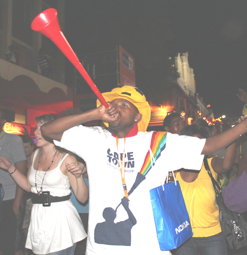 Man blowing a vuvuzela, Cape Town, South Africa